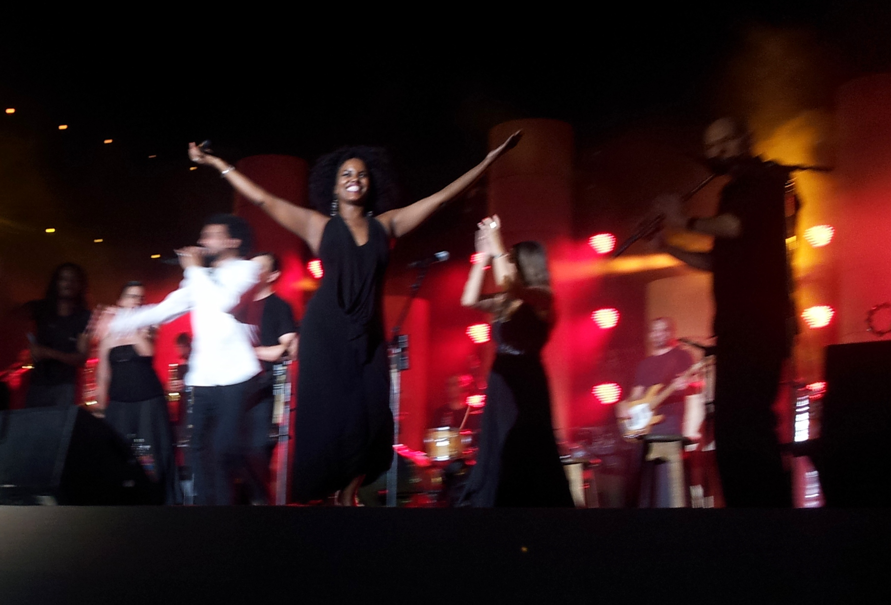 Kabra Kasai and Idan Raichel's Project performance in Masada, Israel